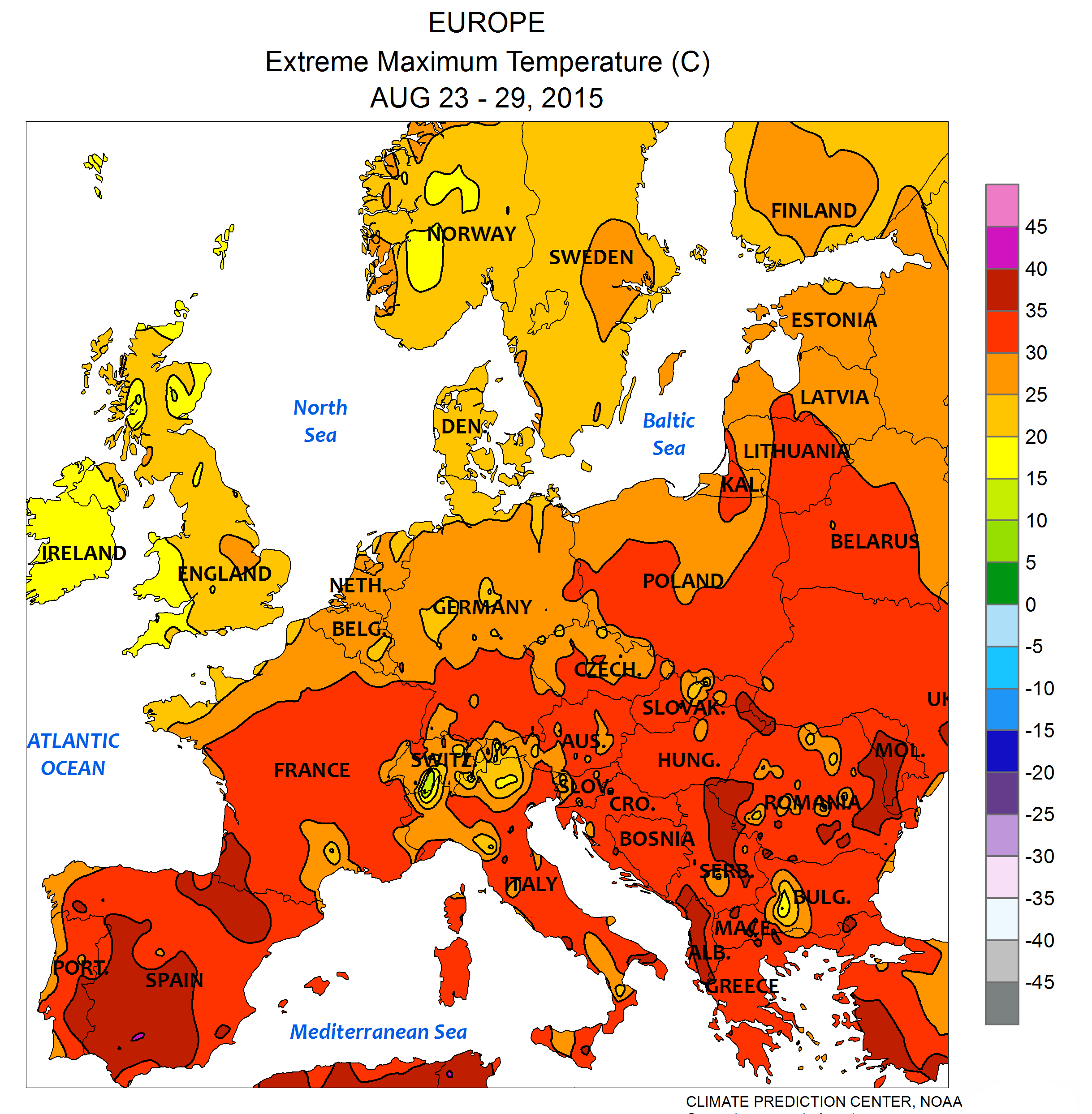 Europe: Extreme maximum temperature August 23 - 29, 2015, computer generated contours, based on preliminary data